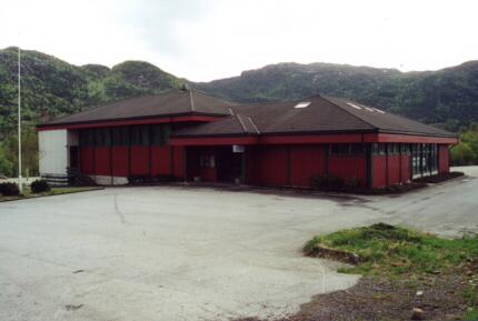 The communityhouse in Vikebygd, Norway. Own picture.